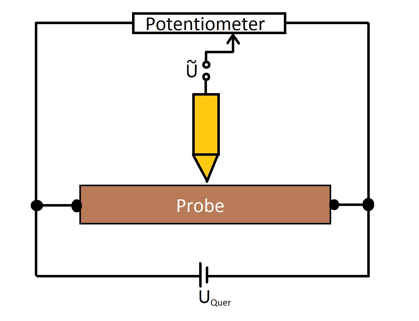 Sketch of a scanning tunneling potentiometry experiment.